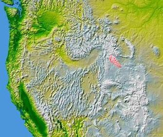 The Wind River Range (red) — in Wyoming Alterations © 2004 Matthew Trump . Underlying image from public domain NASA photography